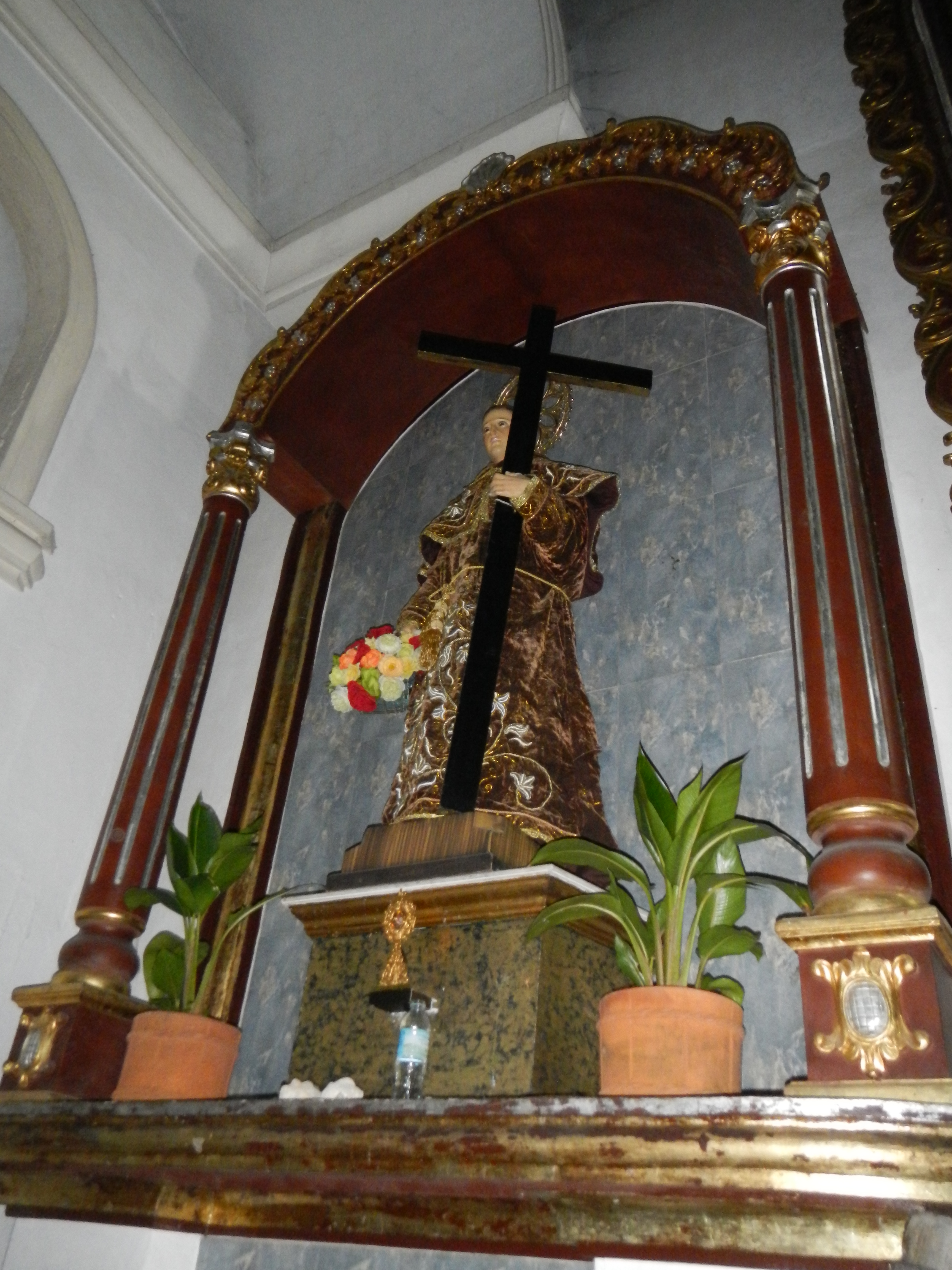 San Diego de Alcala Church